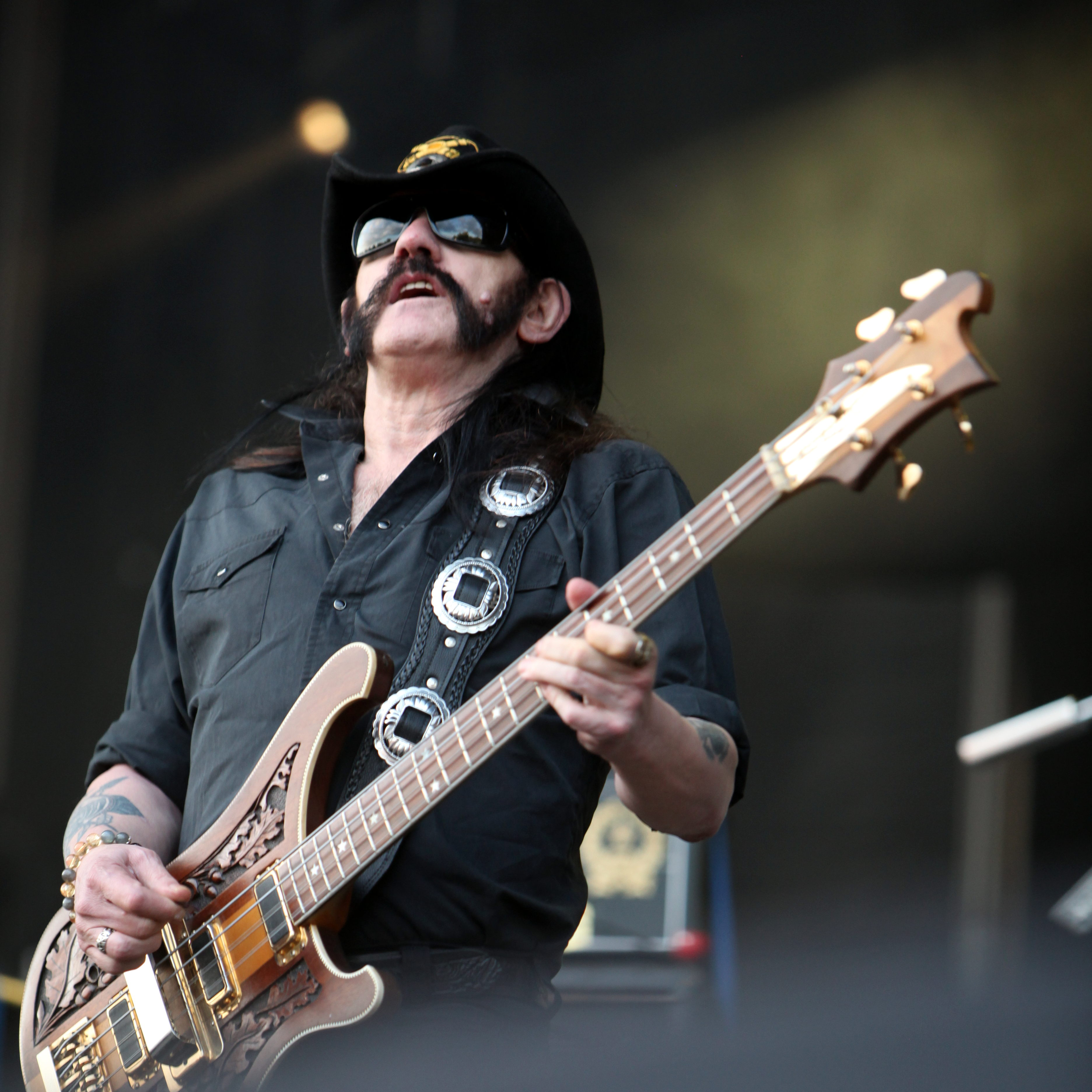 Motörhead at the Eurockéennes de Belfort 2011 The making of this document was supported by Wikimedia CH. (Submit your project!) For all the files concerned, please see the category Supported by Wikimedia CH.